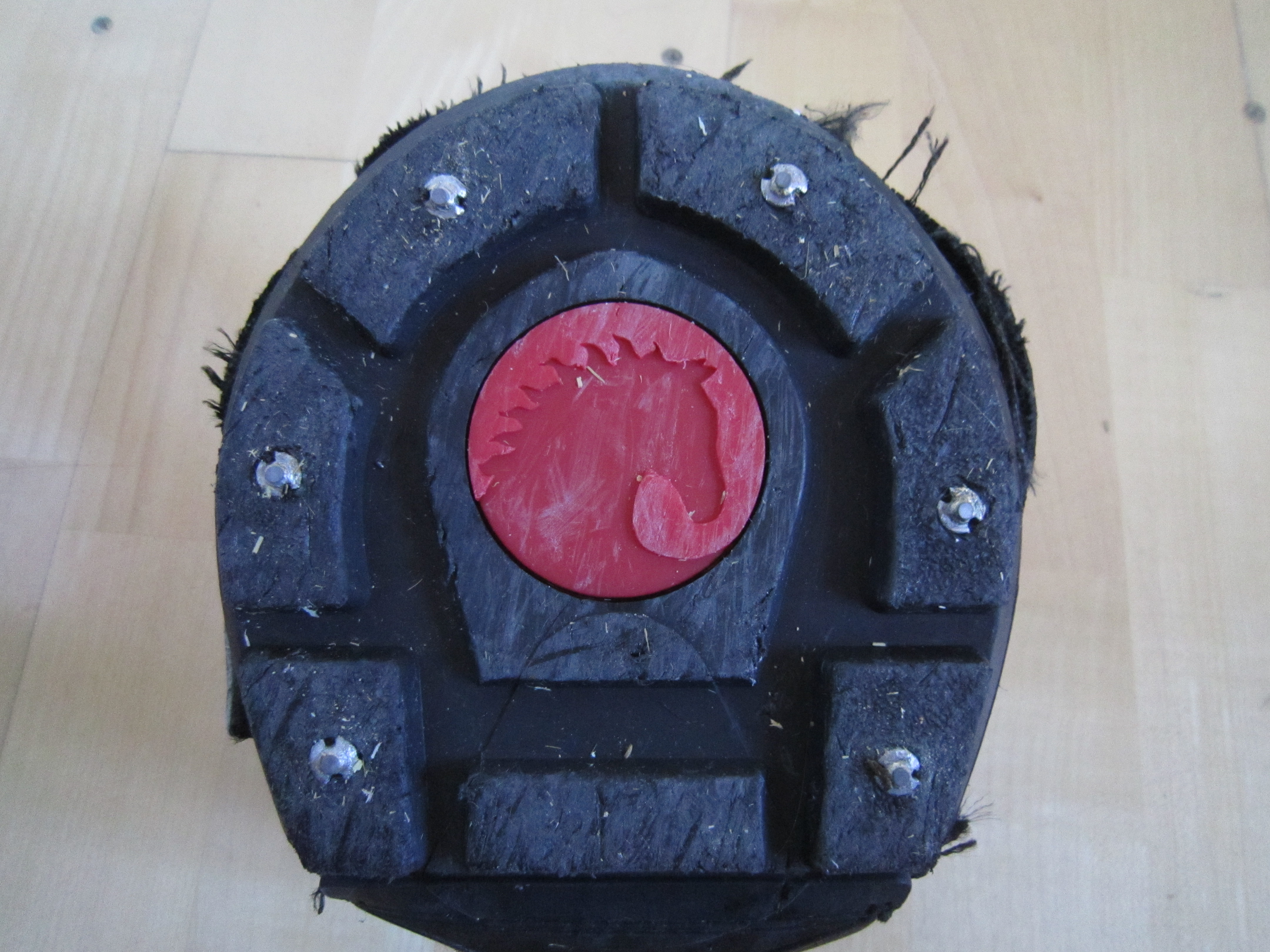 Cavallo Simple boots with 6x BG-1200 screwed into the sole.